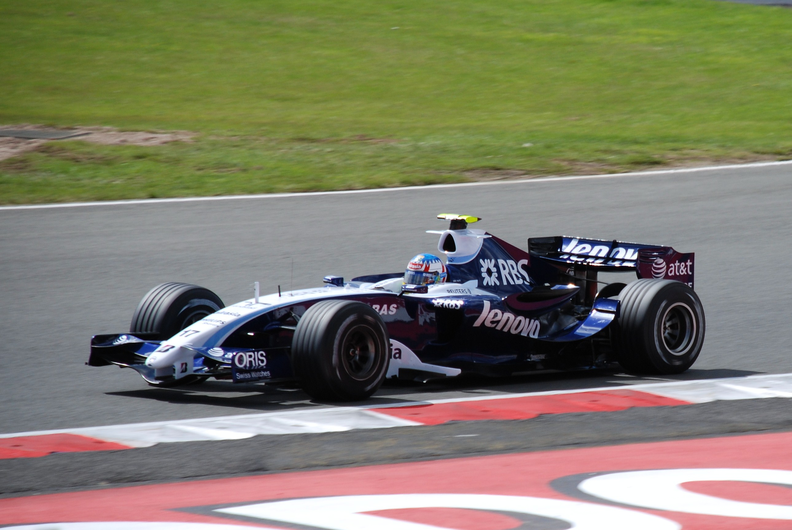 Alexander Wurz driving for WilliamsF1 at the 2007 British Grand Prix.